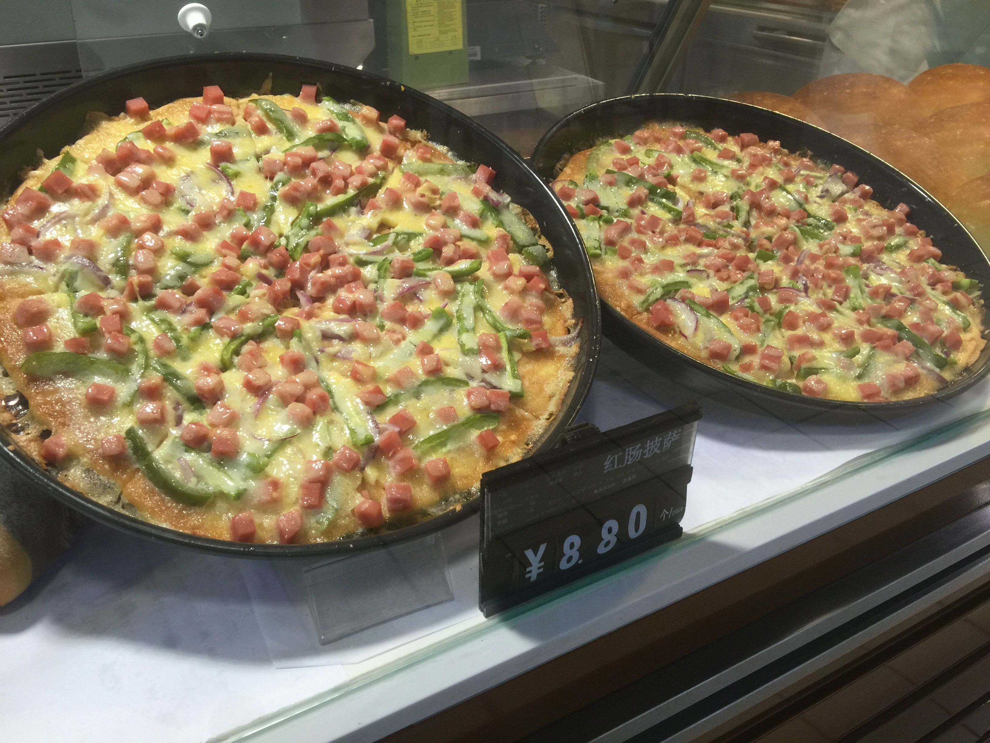 Pizza is about 14" in diameter. There is no cheese on this pizza. The white stuff is chinese salad dressing, which is almost identical to Miracle Whip. The toppings are bits of hotdog and green pepper strips. It sells for 8.80 RMB per slice ($1.32 USD in 2017 07).